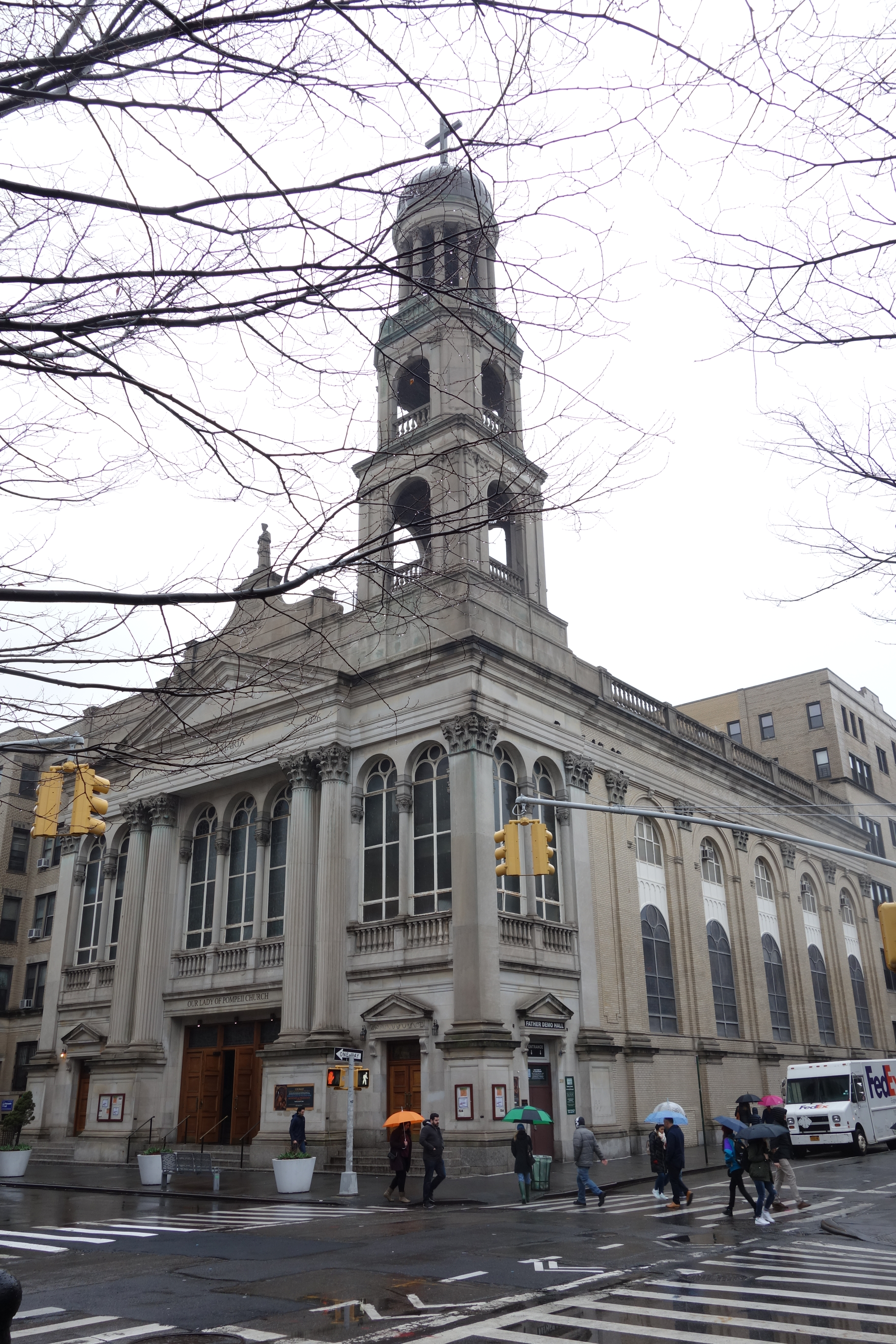 Loooking northwest at the Our Lady of Pompeii Church from Father Demo Square, at Carmine Street and Bleecker Street in Greenwich Village, Manhattan.